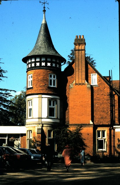 Royal Berkshire Hotel (1986)